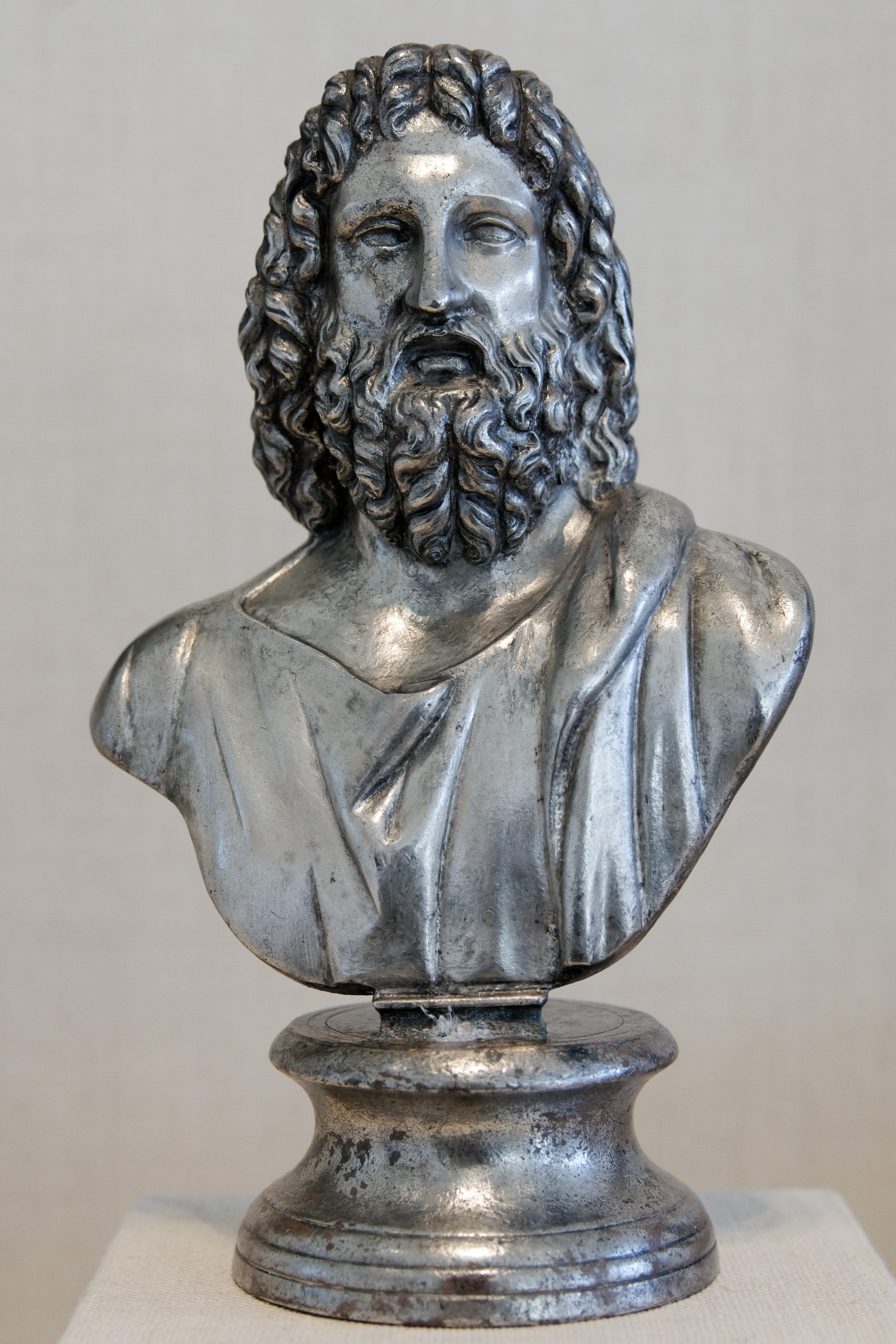 Bust of Serapis. Roman artwork of the mid-Imperial era.